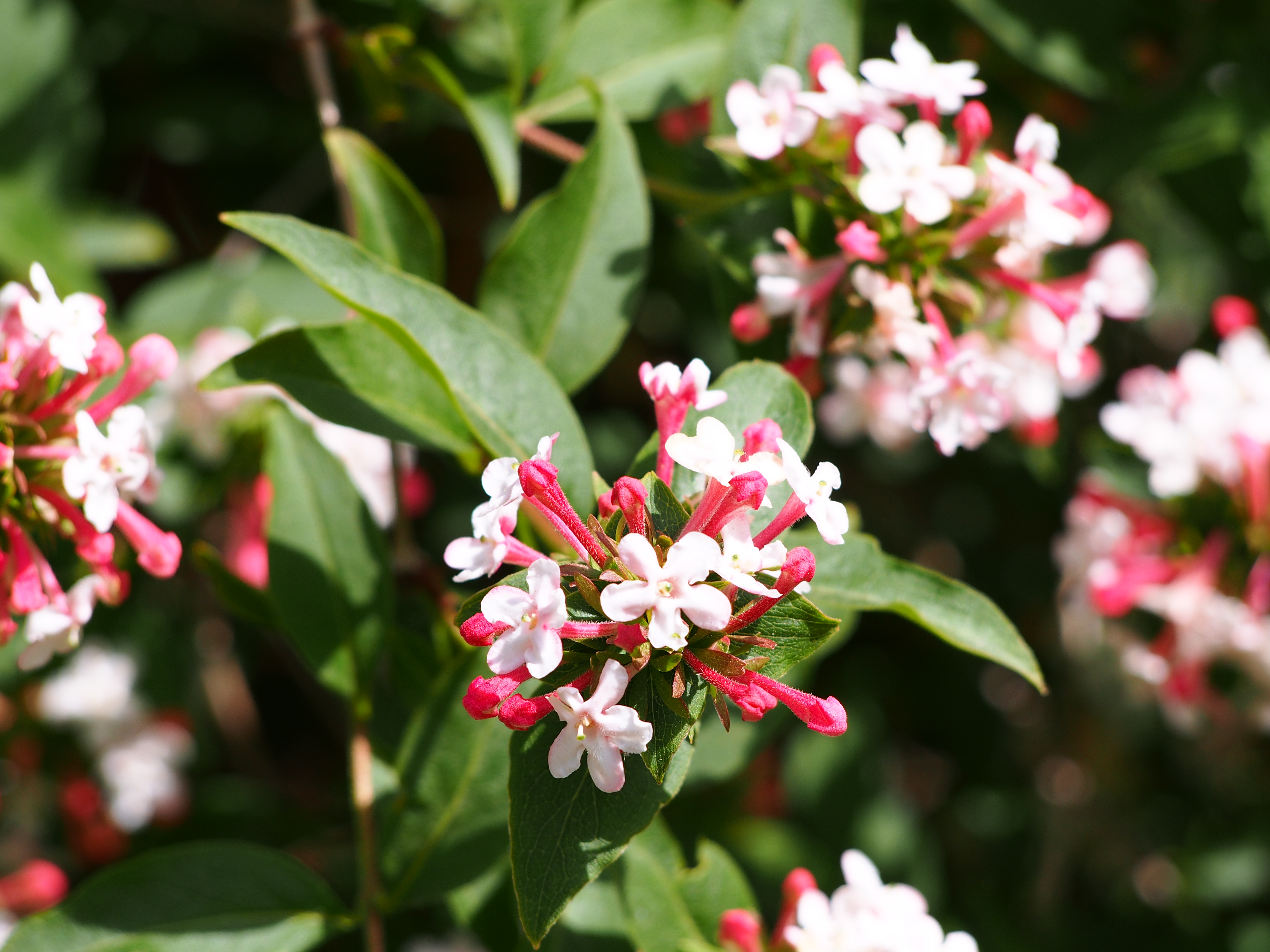 Zabelia biflora (in older taxonomy included into Abelia genus as Abelia biflora, syn. Abelia coreana), plant in flower, cultivated in Wrocław University Botanical Garden, Wrocław, Poland.